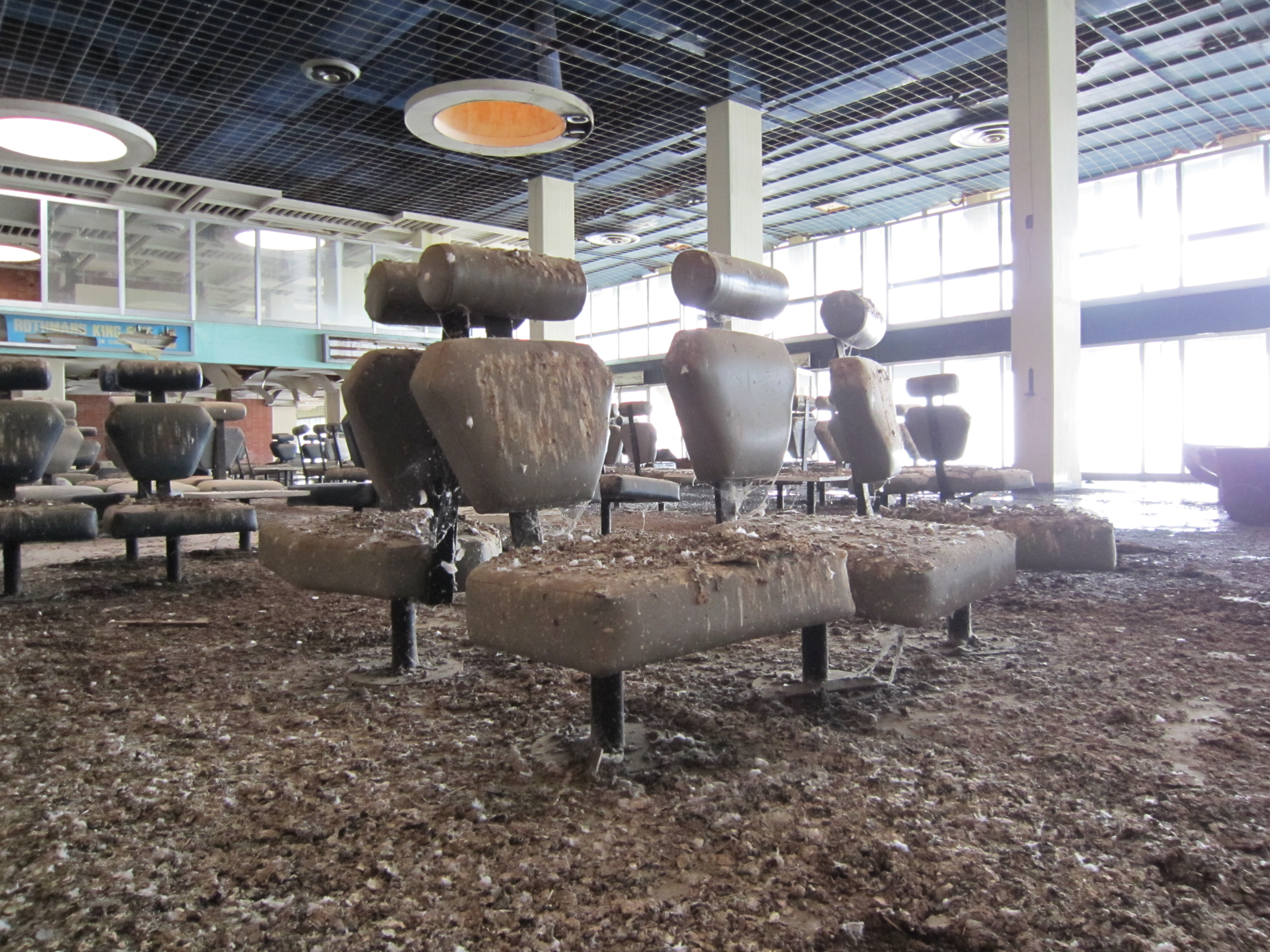 A seating area within the derelict terminal building of the closed Nicosia International Airport in the United Nations Buffer Zone in Cyprus.